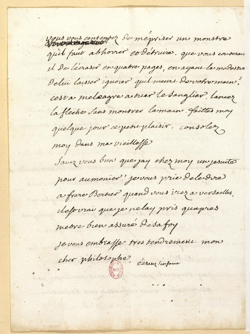 Voltaire's handwriting containg his famous phrase "Ecrasez l'infâme", bottom. The subject of the writing is the affair Jean Calas.